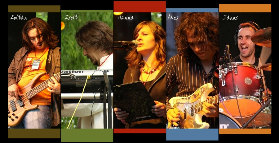 My artwork for the band Yesterdays, I have sent them the photo and they kindy used it on their website. Pictures made by Péter Birta (Nyírbátor, Hungary), used by permission!